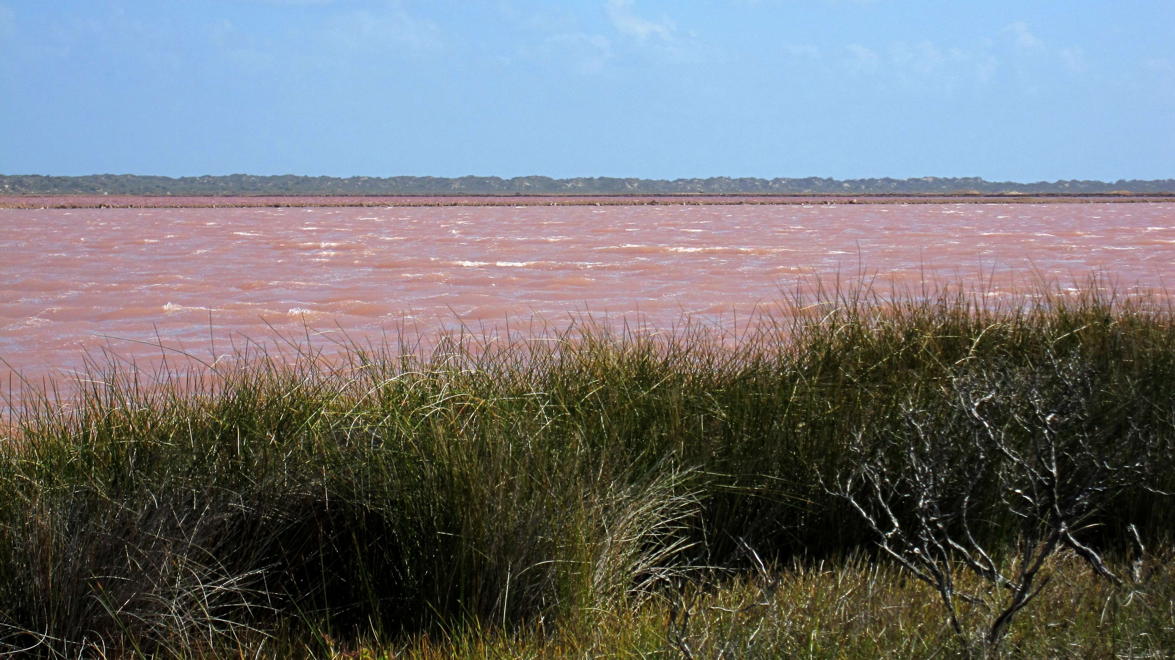 View from the shore of Hutt Lagoon a salt lake located near the coast just north of the mouth of the Hutt River, in midwest Western Australia.